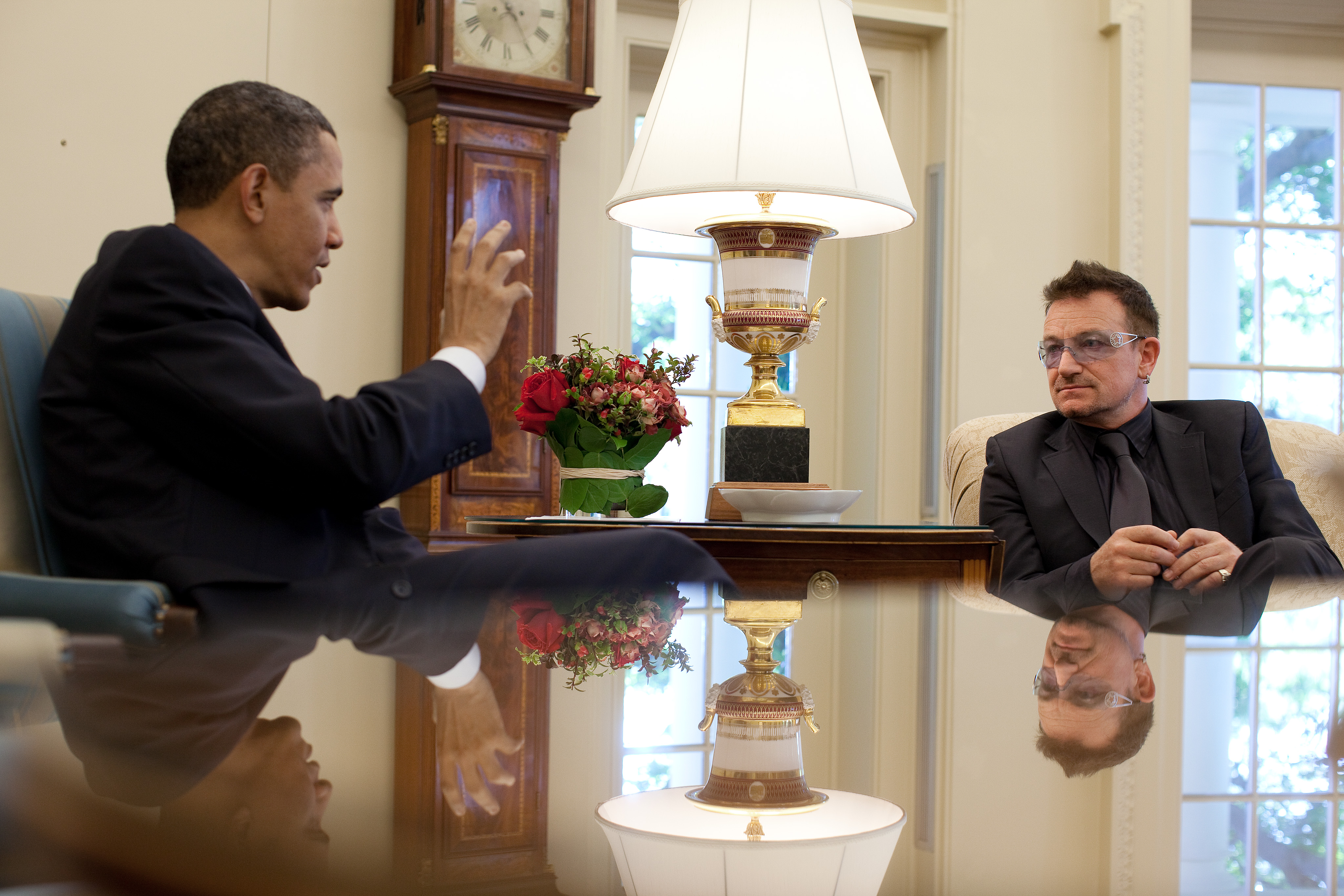 Image courtesy of The White House. President Barack Obama meets with Paul David “Bono” Hewson, lead singer of U2 and anti-poverty activist, to discuss development policy in the Oval Office, April 30, 2010. (Official White House Photo by Pete Souza)